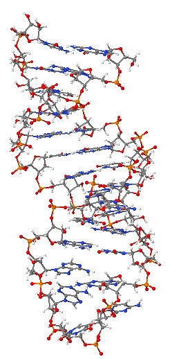 NMR structure of the central region of the human GluR-B R/G pre-mRNA, from the protein data bank ID 1ysv.